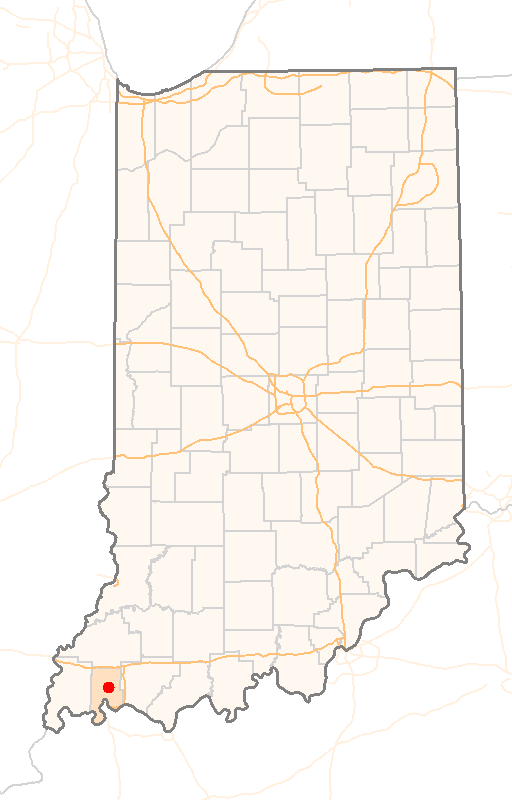 Red Dot map of Indiana, showing the location of Highland,_Vanderburgh_County